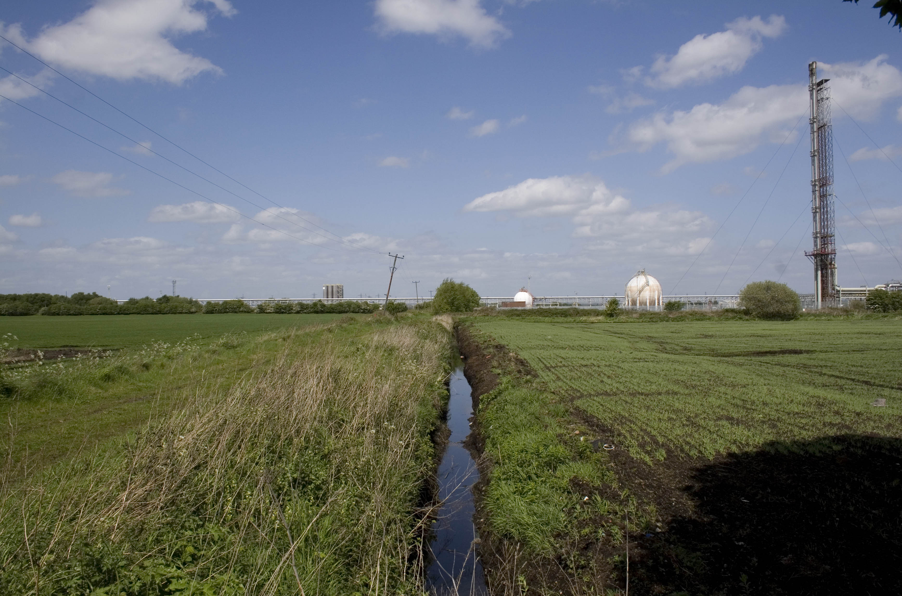 A drainage ditch north of Ashton Road at Carrington Moss, with the Shell facility in the background.